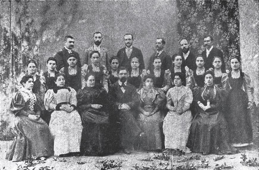 Bulgarian Girl School in Thessaloniki with their main teacher Mihail Sarafov at 1895/1896